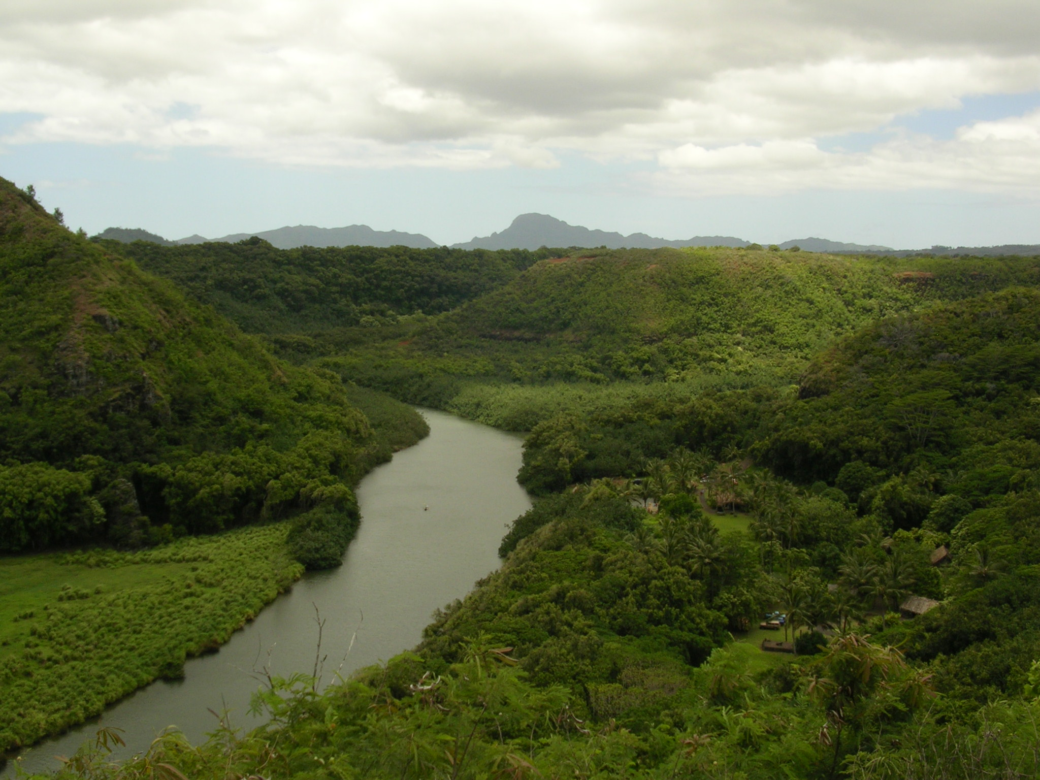 The Wailua River, in Wailua River State Park — on the Hawaiian island of Kauai. Photo by Alejandro Bárcenas (2006)